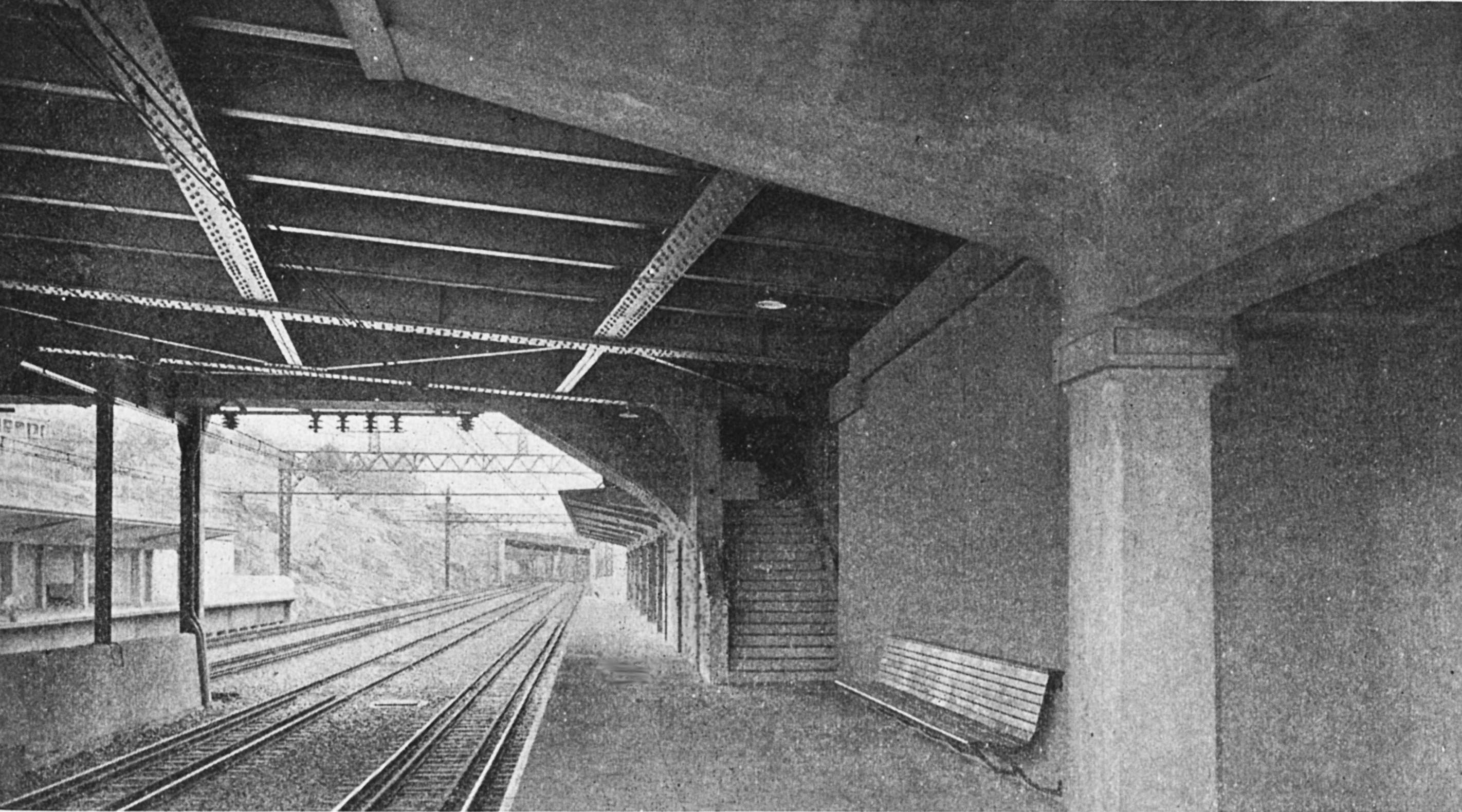 Platforms with local and express tracks at Sixth Street station in Mount Vernon on the New York, Westchester and Boston Railway.